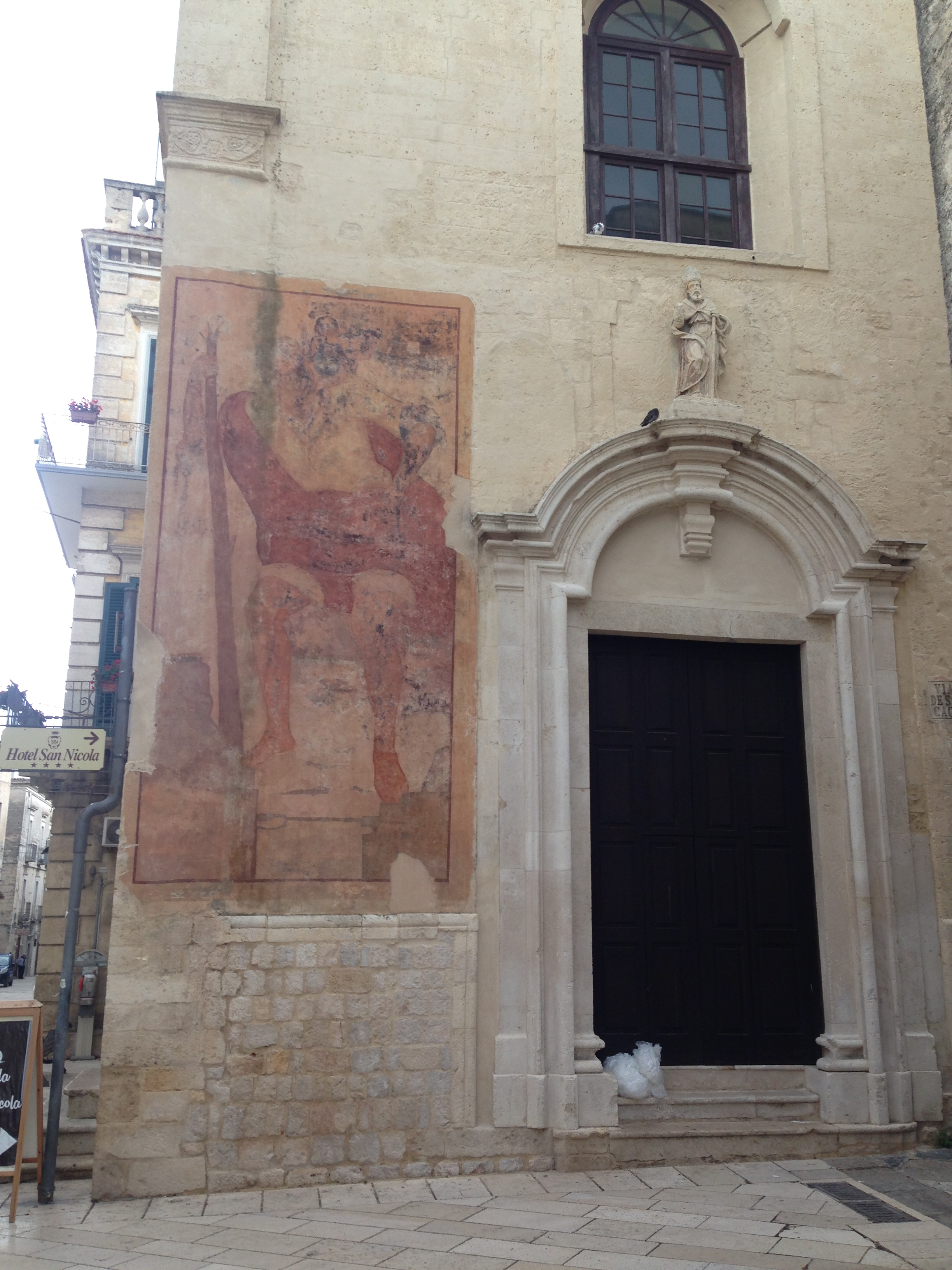 Saint Biagio's Chapel, located in corso Federico II di Svevia, in Altamura, Italy. The painting is about Saint Christopher.